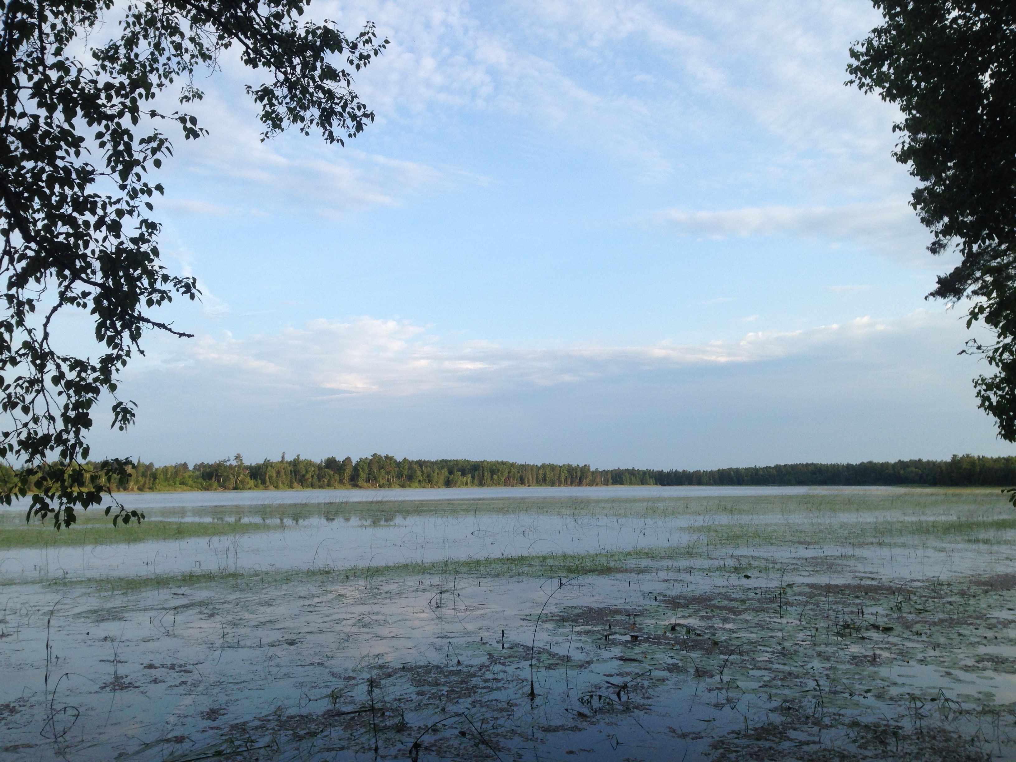 This is a photograph of Lake Itasca taken in July 2015.